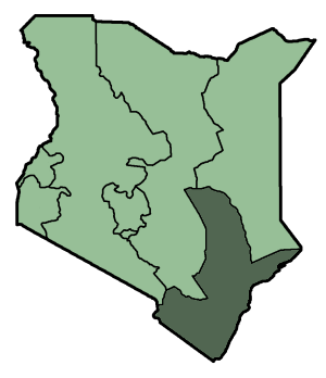 Coast Province of Kenya